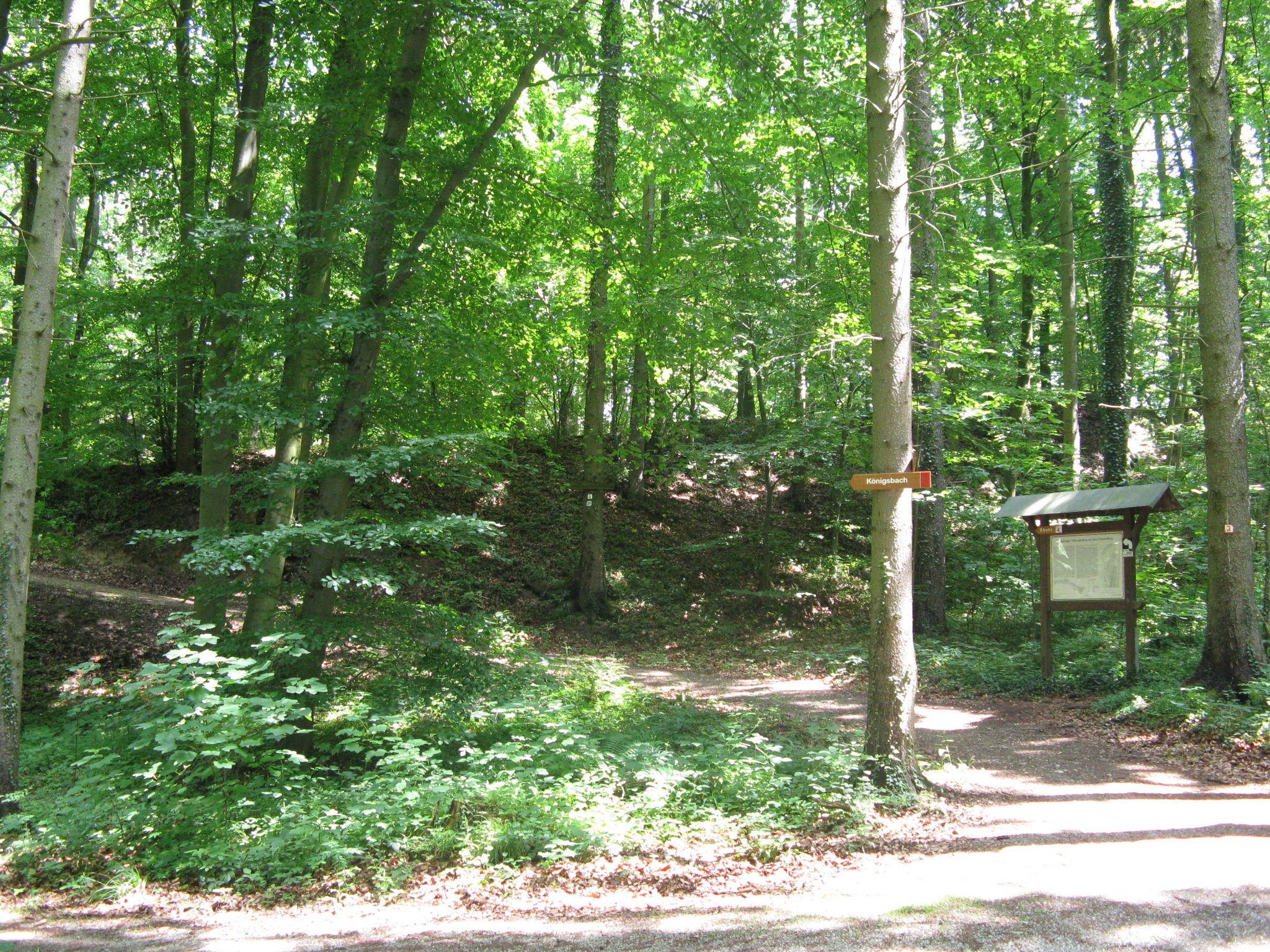 Dommelberg, archeological site, outer Northern wall, Koblenz City Forest, Germany